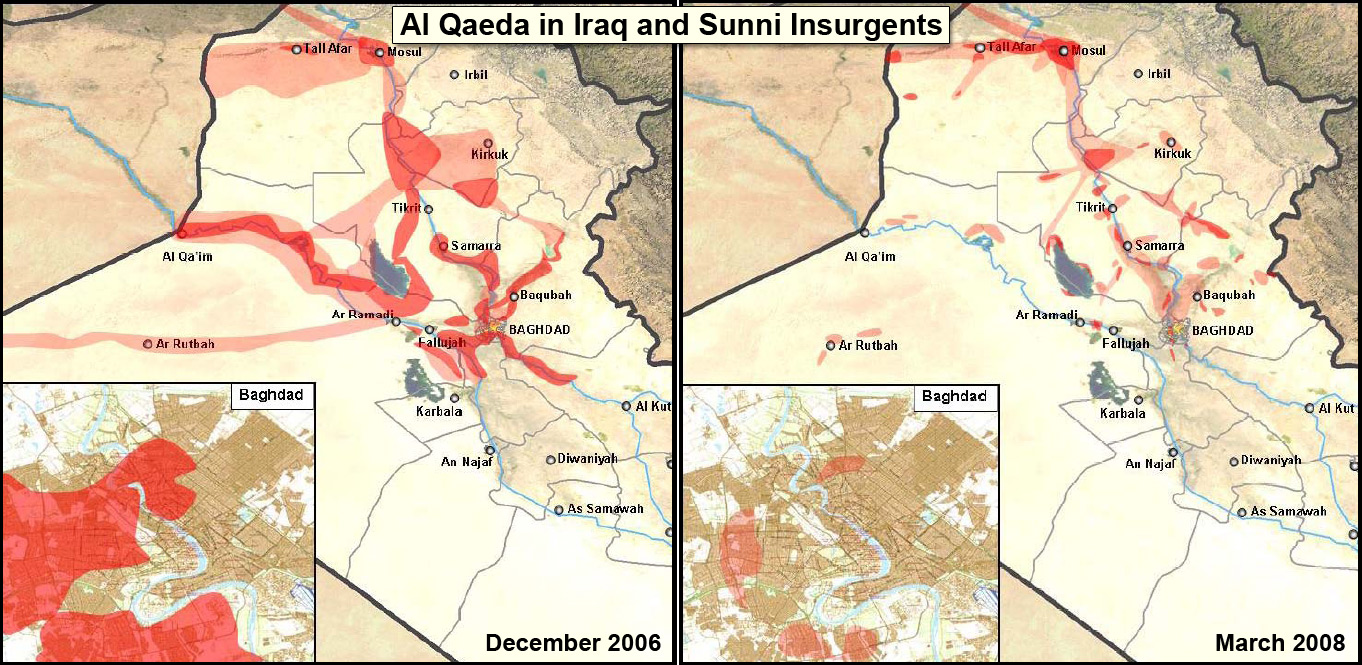 A Multinational Force Iraq map shows the progress coalition forces have made in reducing the number of Al Qaeda and Sunni insurgents in Iraq from December 2006 to March 2008. General David H. Petraeus submitted the map as part of his testimony before the Senate Armed Services Committee, April 8, 2008. Defense Deptartment map